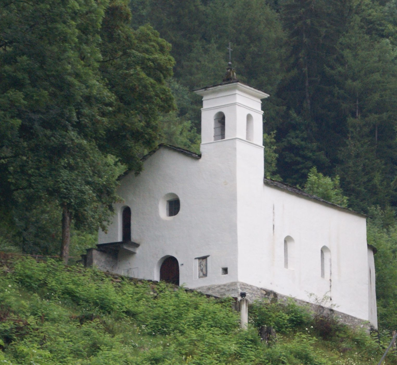 Poschiavo in Grisons, Switzerland. Chapel Saint Peter (Cappella San Pietro). View from the Railwaystation Poschiavo.